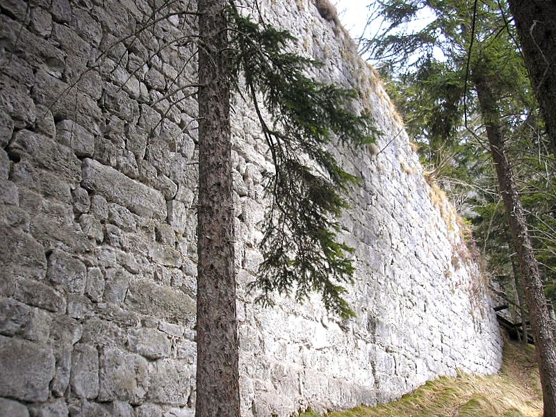 Hohenwaldeck castle (Schliersee-Fischhausen, Landkreis Miesbach, Upper Bavaria, Germany). The southern wall